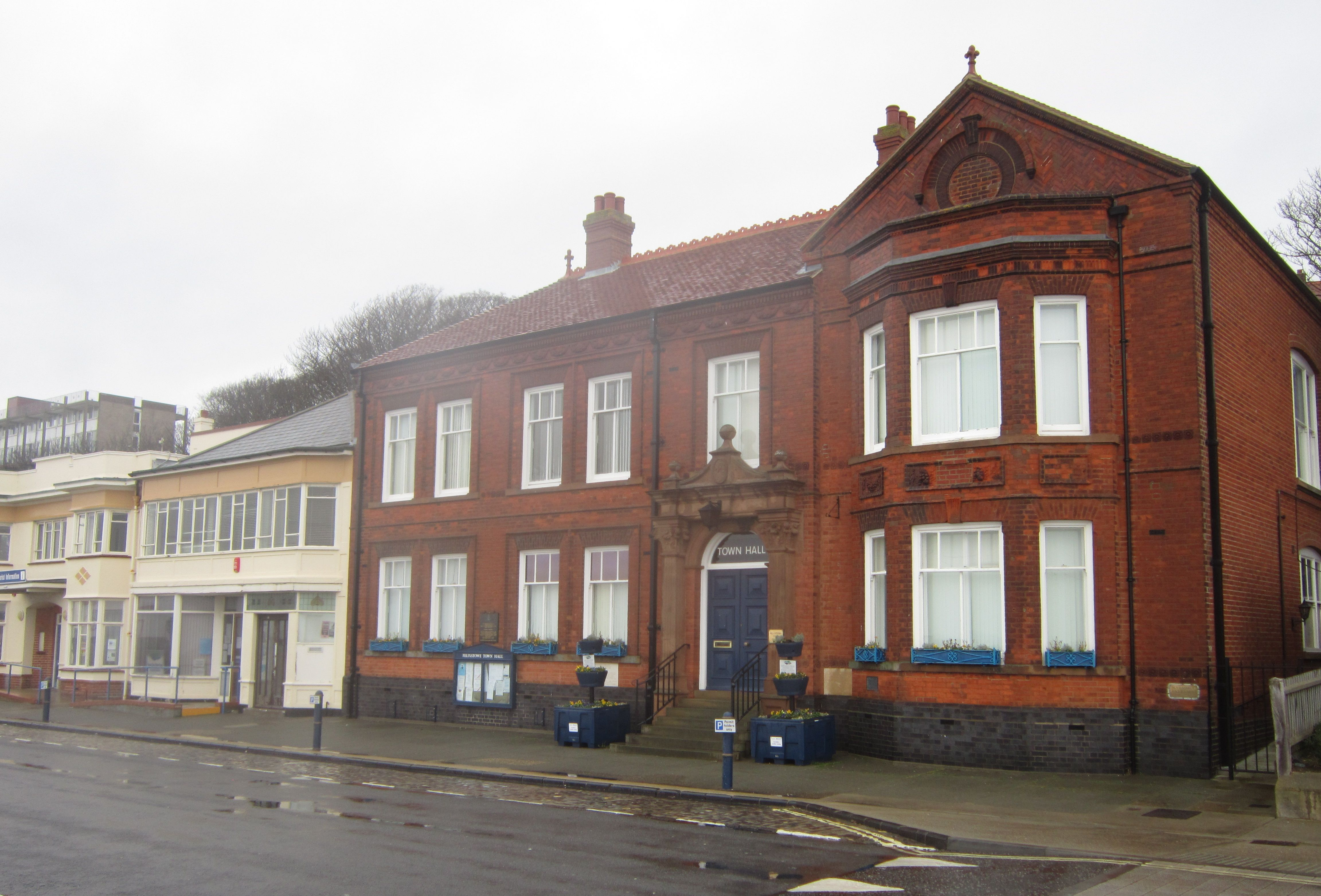 Felixstowe town hall & tourist information